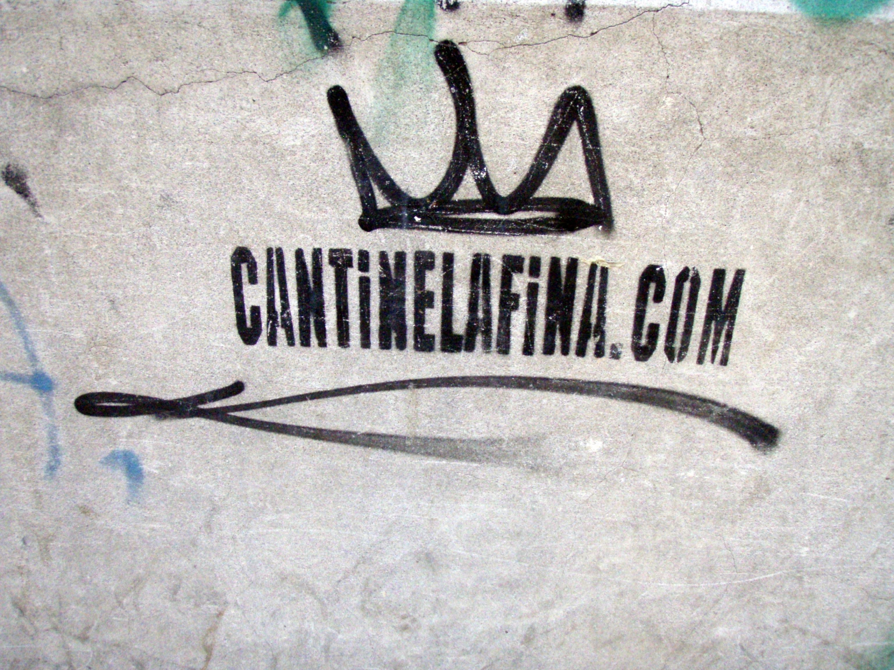 Graffiti from spanish hip-hop group "Cantinela fina"